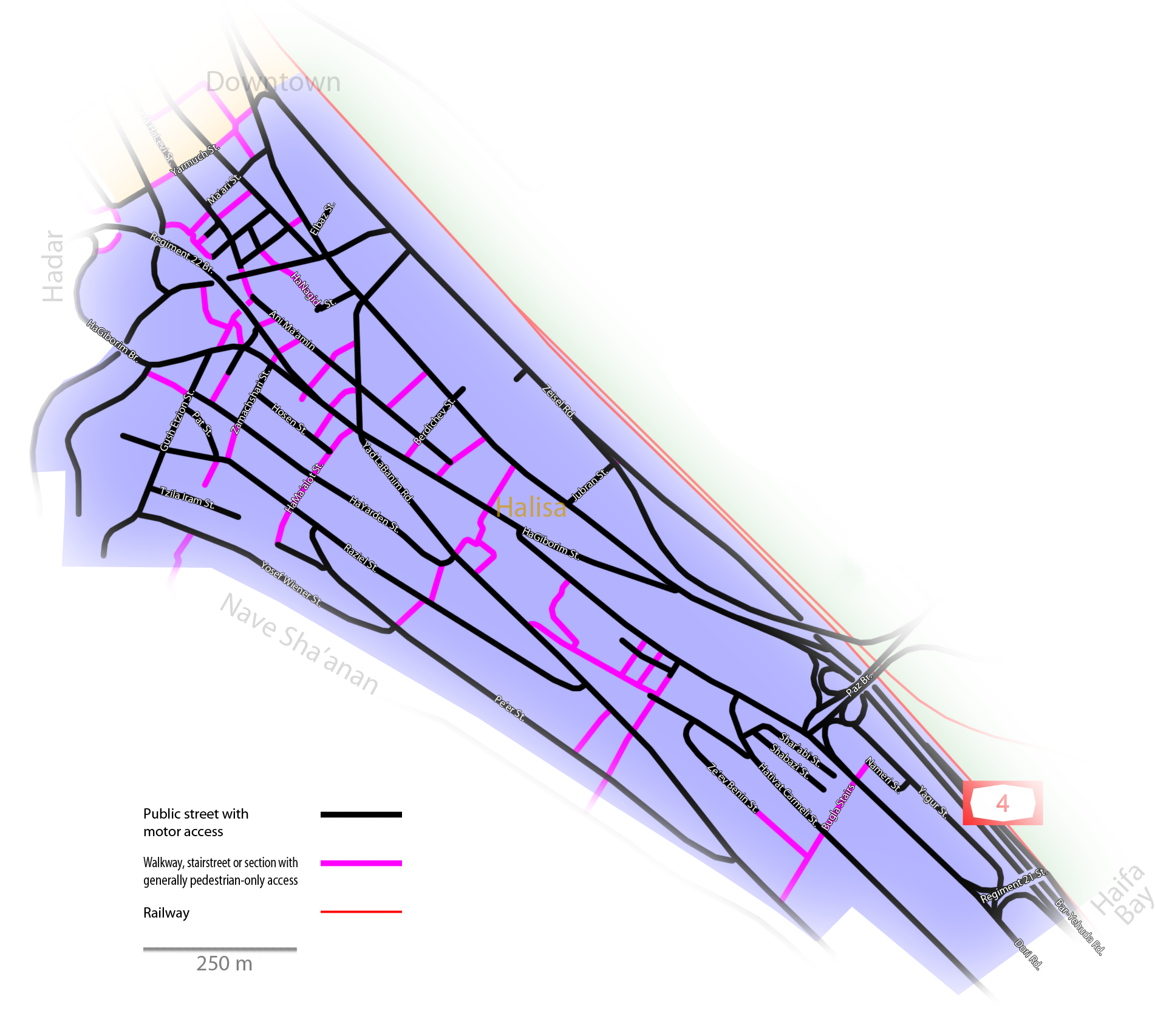 Central Haifa zone cut: Halisa.